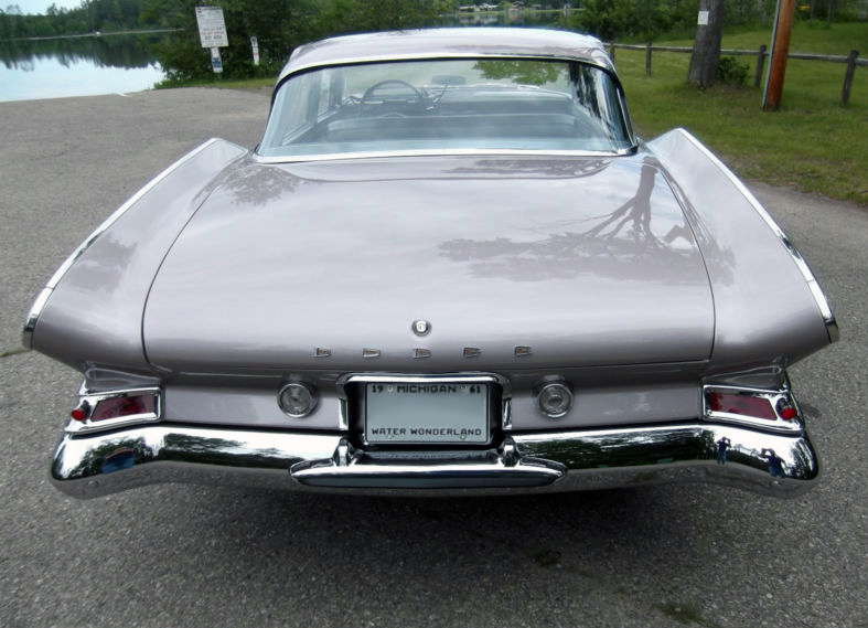 A 1961 Dodge Seneca, showing the tiny and problematic taillights